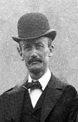 American geologist Henry Barnard Kümmel (1867-1945) at age 30. Cropped from a group photo taken at Harpers Ferry, West Virginia in 1897.